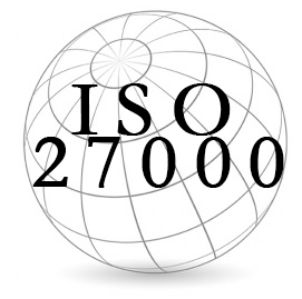 ISO/IEC 27000 icon